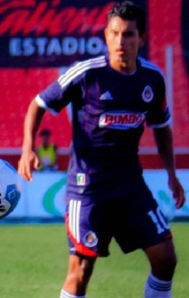 Chivas player Alberto Medina